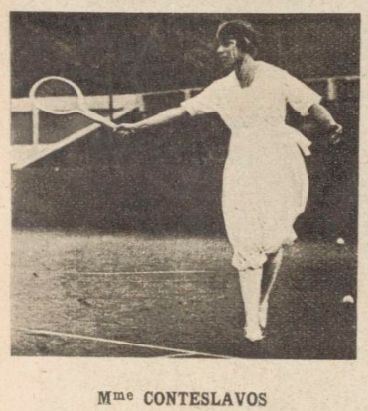 Helene "Mile" Contostavlos, female tennis player